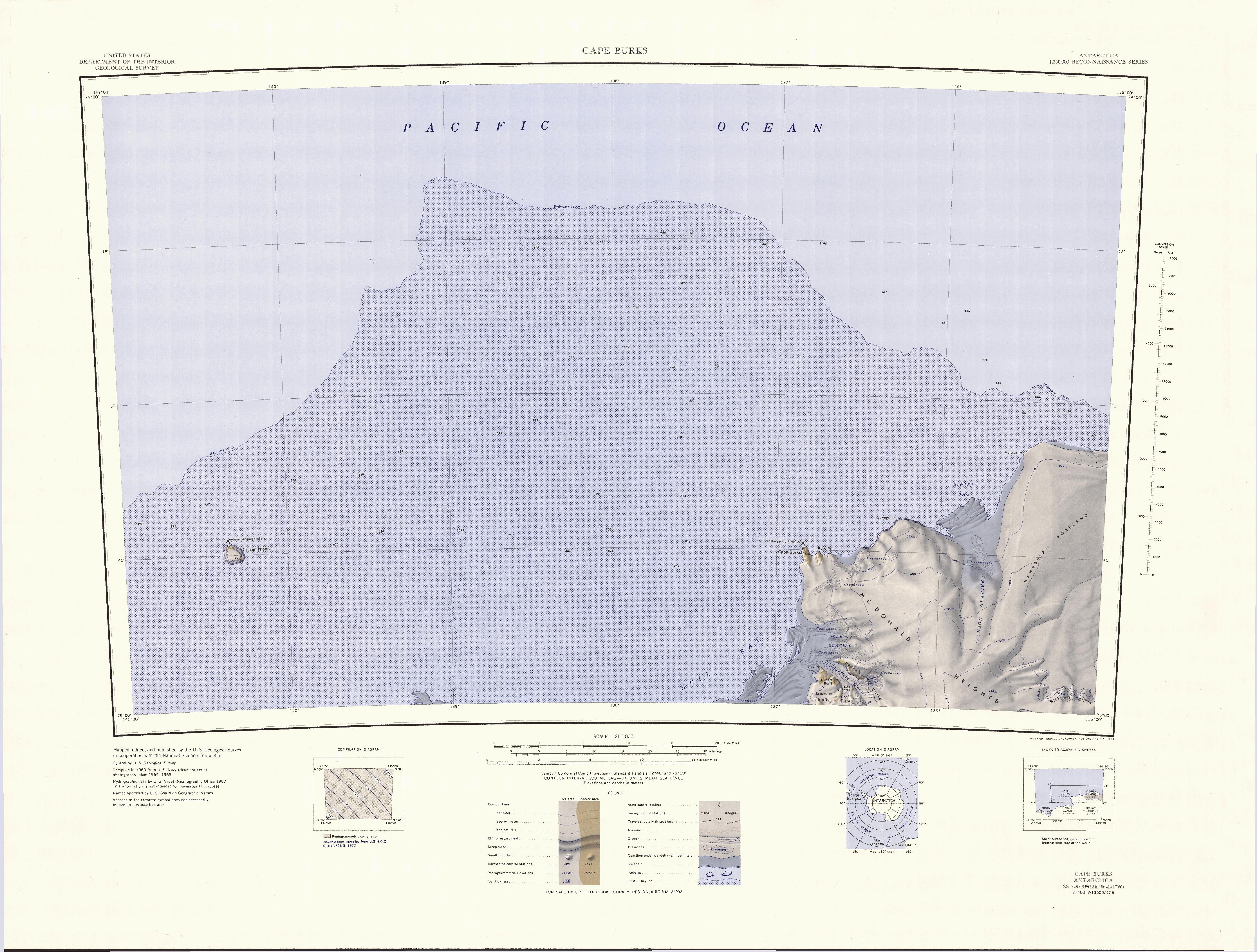 1:250,000-scale topographic reconnaissance map of the Cape Burks area from 135°-141°W to 74°-75°S in Antarctica. Mapped, edited and published by the U.S. Geological Survey in cooperation with the National Science Foundation.